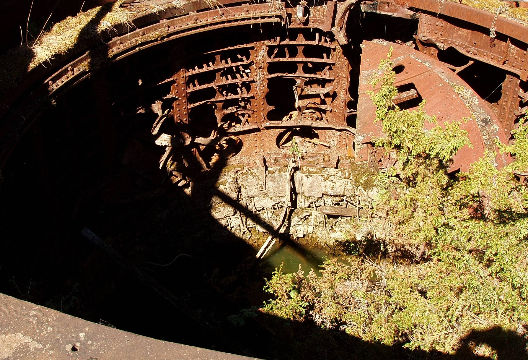 Coastal battery no. 314, gun tower II on Osmussaar